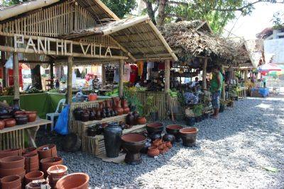 Vendors sell their produce at the local fair